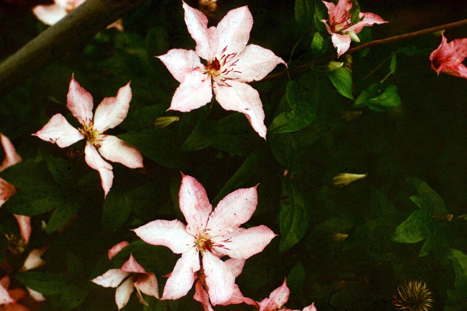 Сад обладал уникальной коллекцией клематисов.